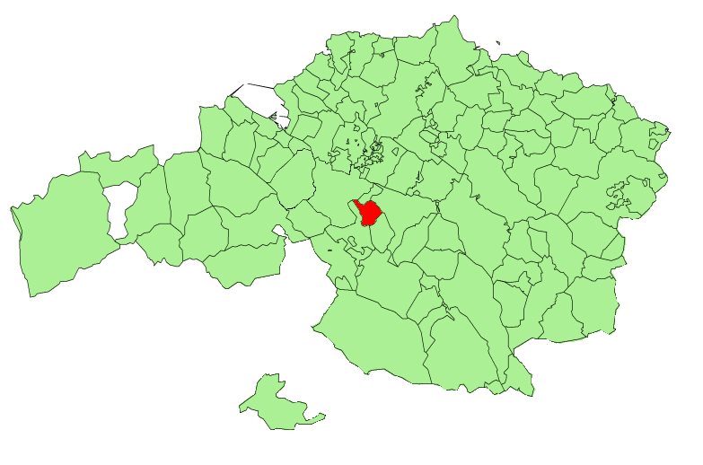 Map of Basauri